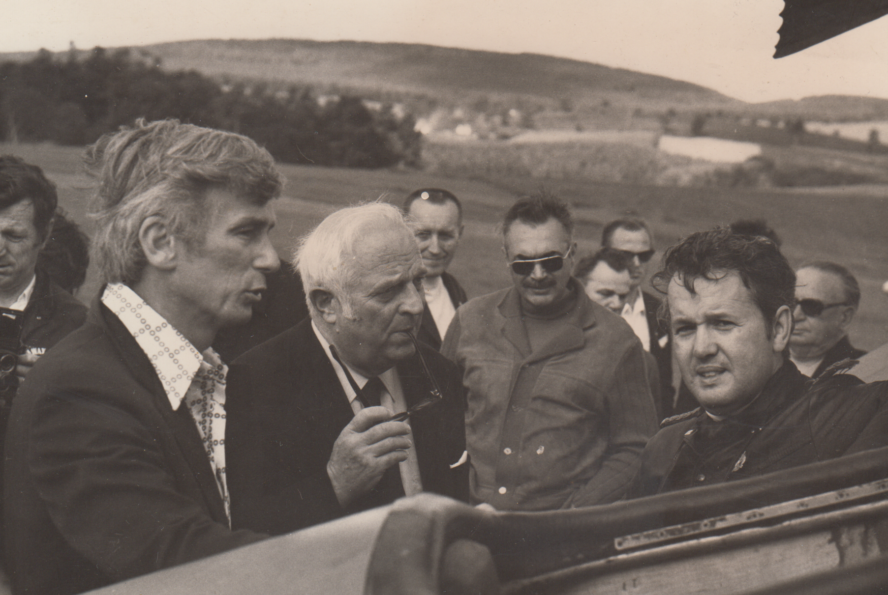 1973 saw Lynn Garrison on coordinating committe for Federation Aeronautique Internationale conference in Dublin, Ireland, Gene Cernan, and John young were guests.